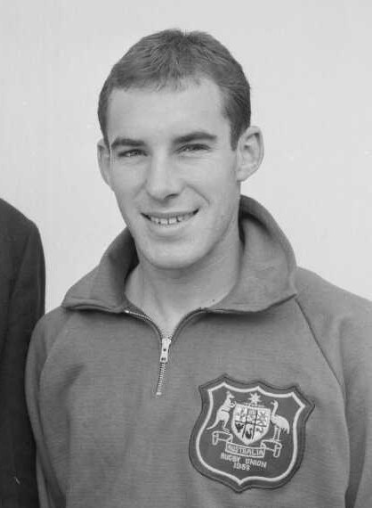 Australian rugby union football players Jim Lenehan and H Roberts